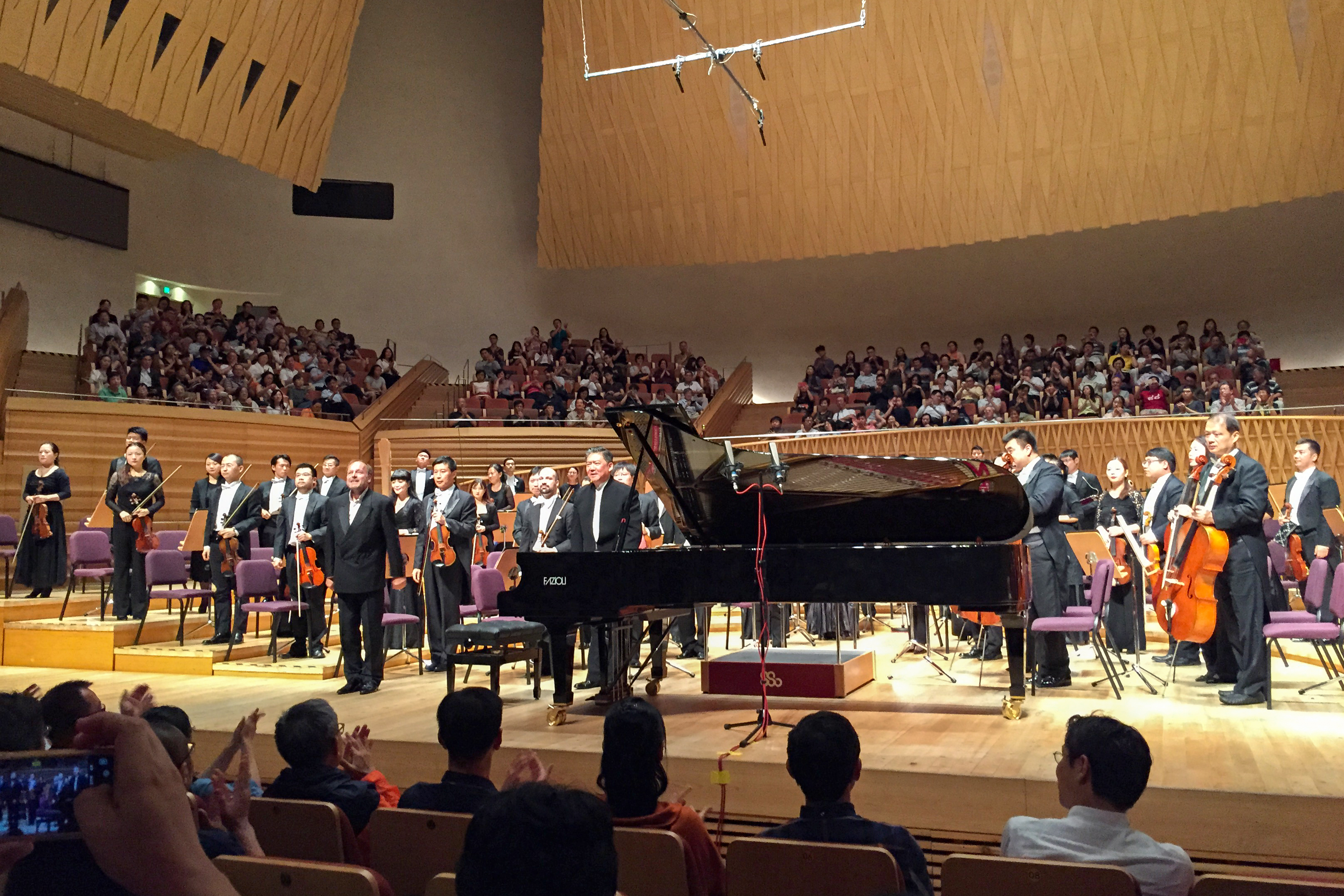 Opening concert of SSO 17/18 season.